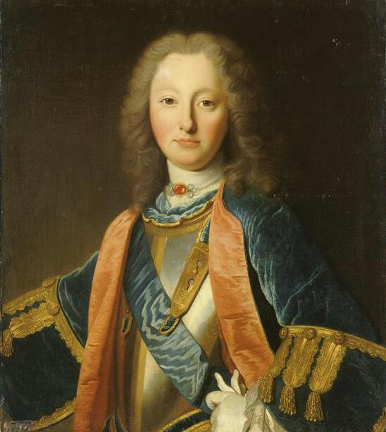 Louis Charles, Count of Eu (1701–1775)